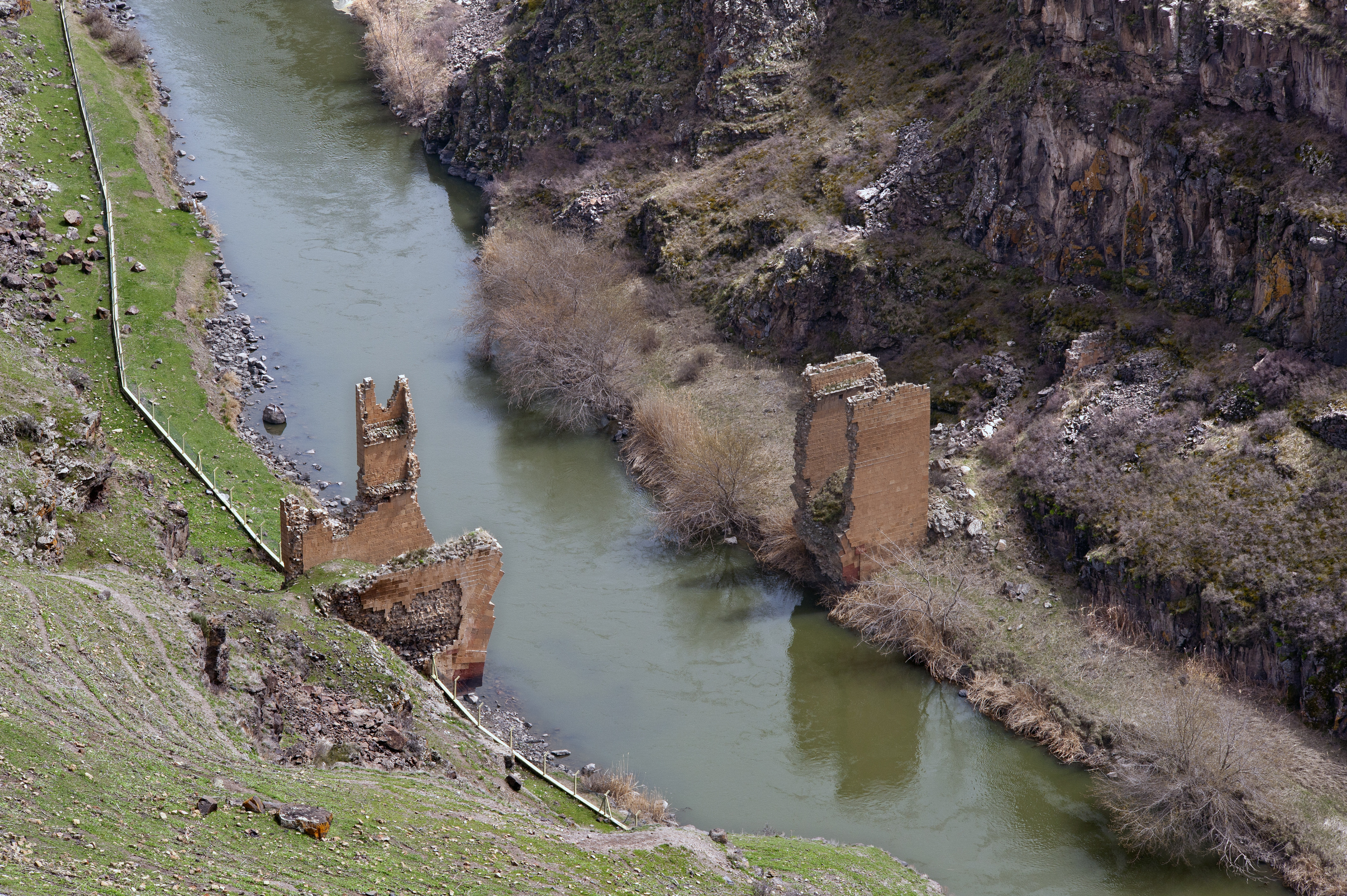 Ruins of the bridge over Akhurian River, Ani, Turkey.